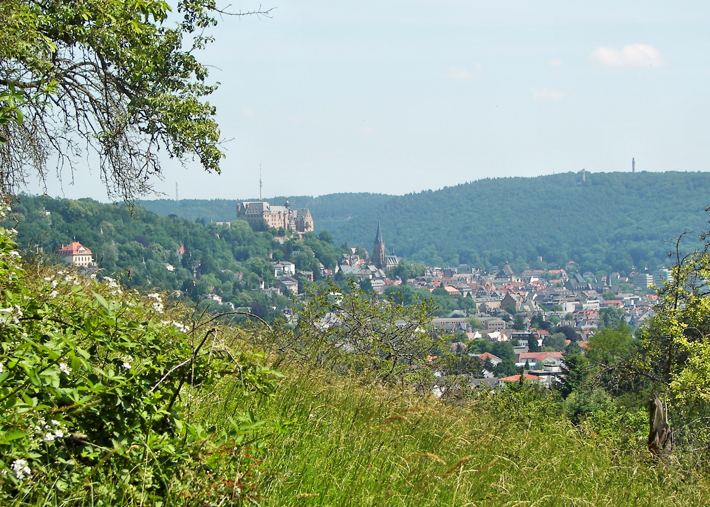 Heiliger Grund near Marburg-Ockershausen, Hesse, Germany